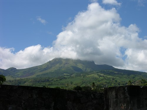 le mont pelé en martinique